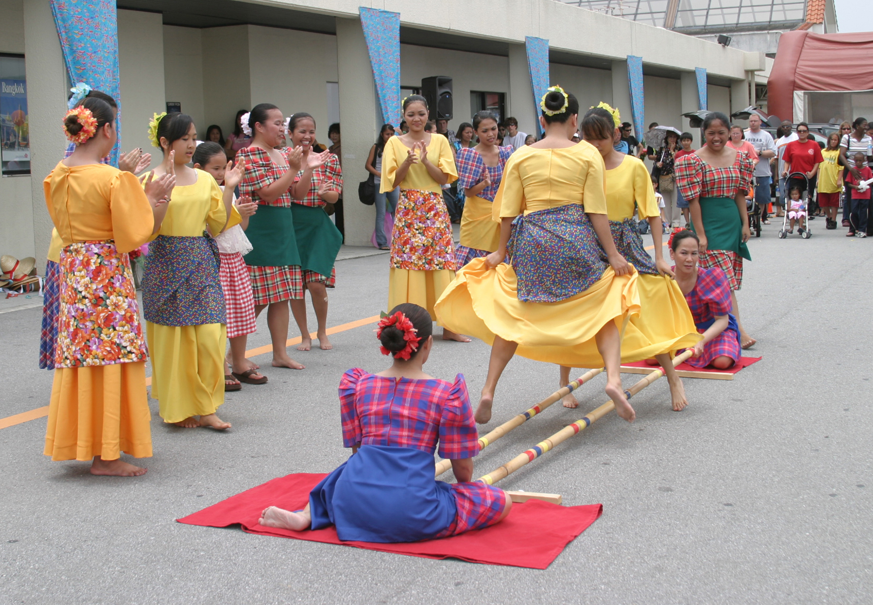 Members from the Philippine Cultural Dancers group perform a traditional dance (tinikling) during the Asian Pacific Heritage Month celebration May 26 at the Kadena Air Base, Japan, exchange parking lot.